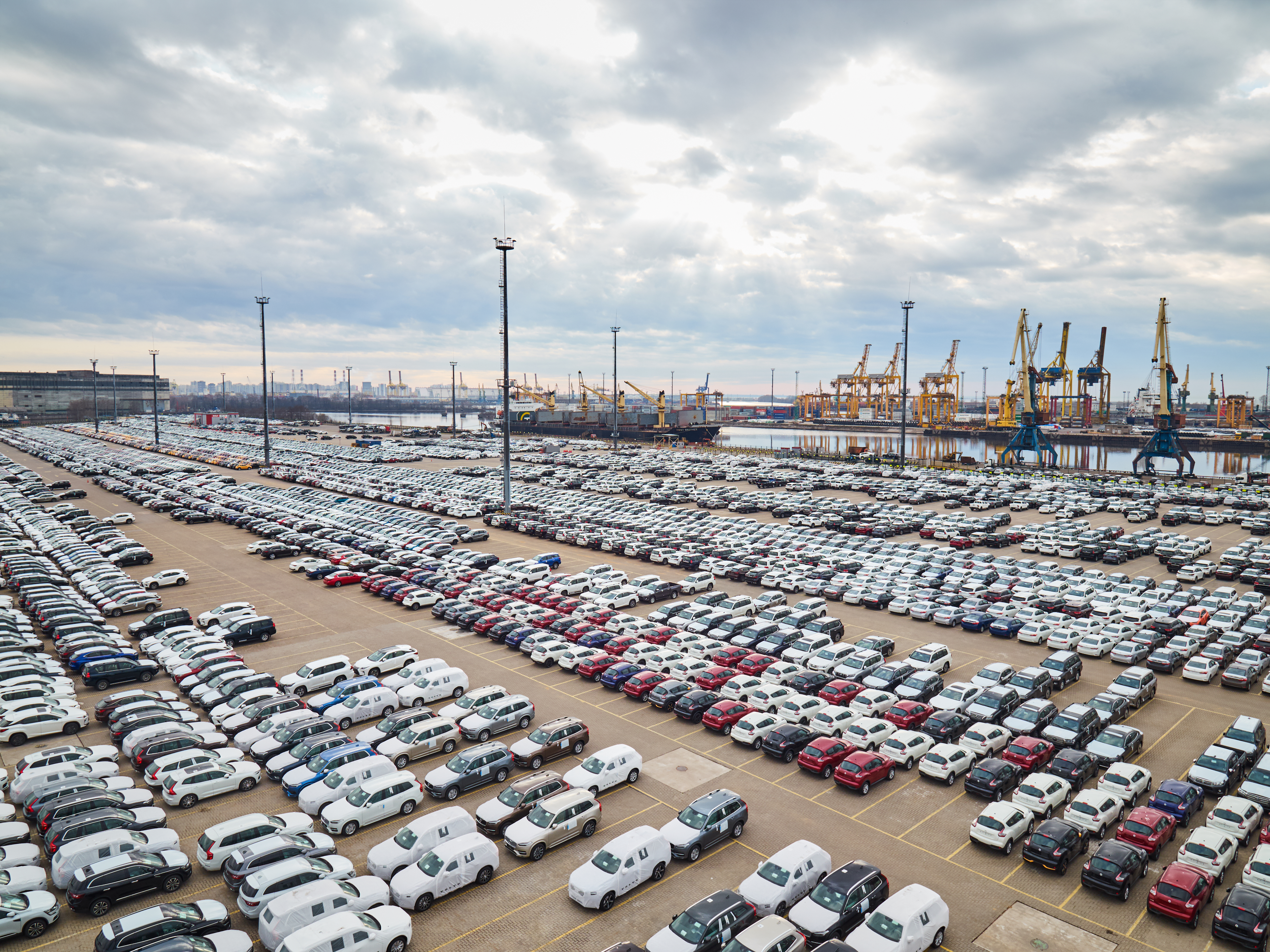 Petrolesport terminal in St.Petersburg